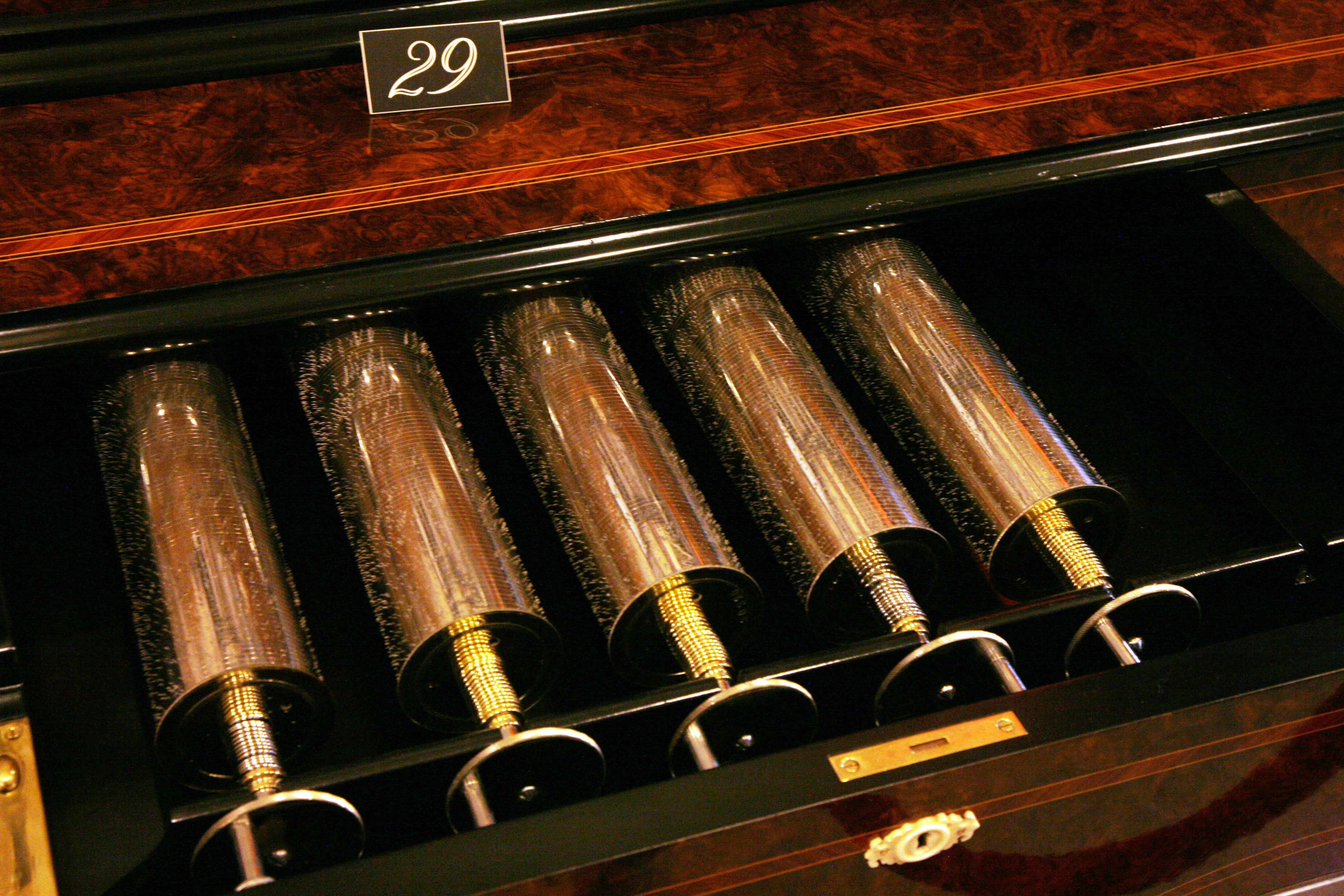 Musée Baud